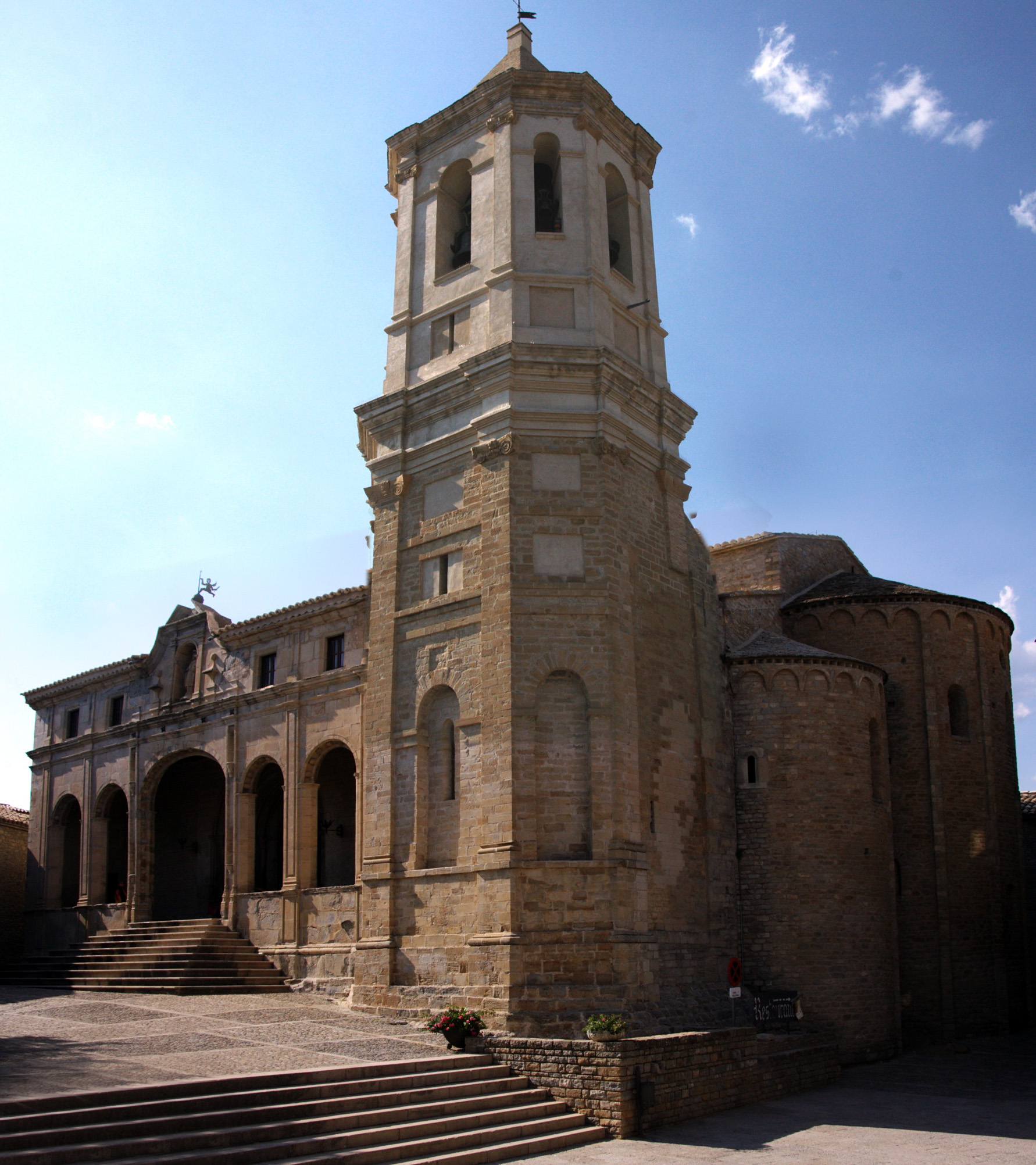 Portic of the San Vicente Cathedral, in Roda de Isábena, Huesca, Spain.